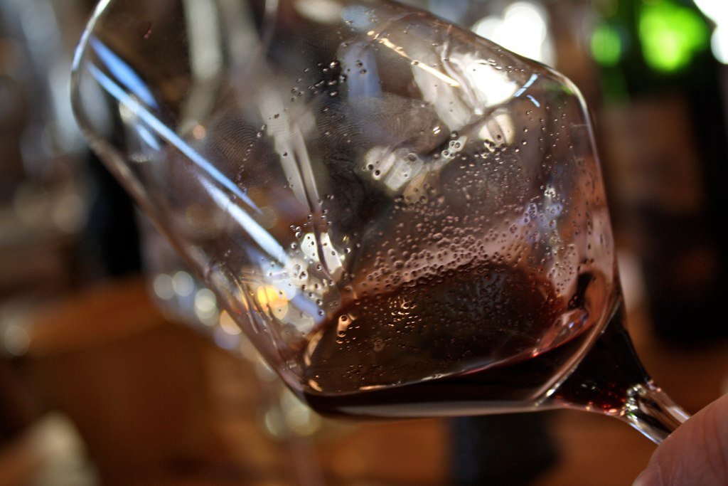 An example of sediments that can be seen in wine that has not been fined or filtered.